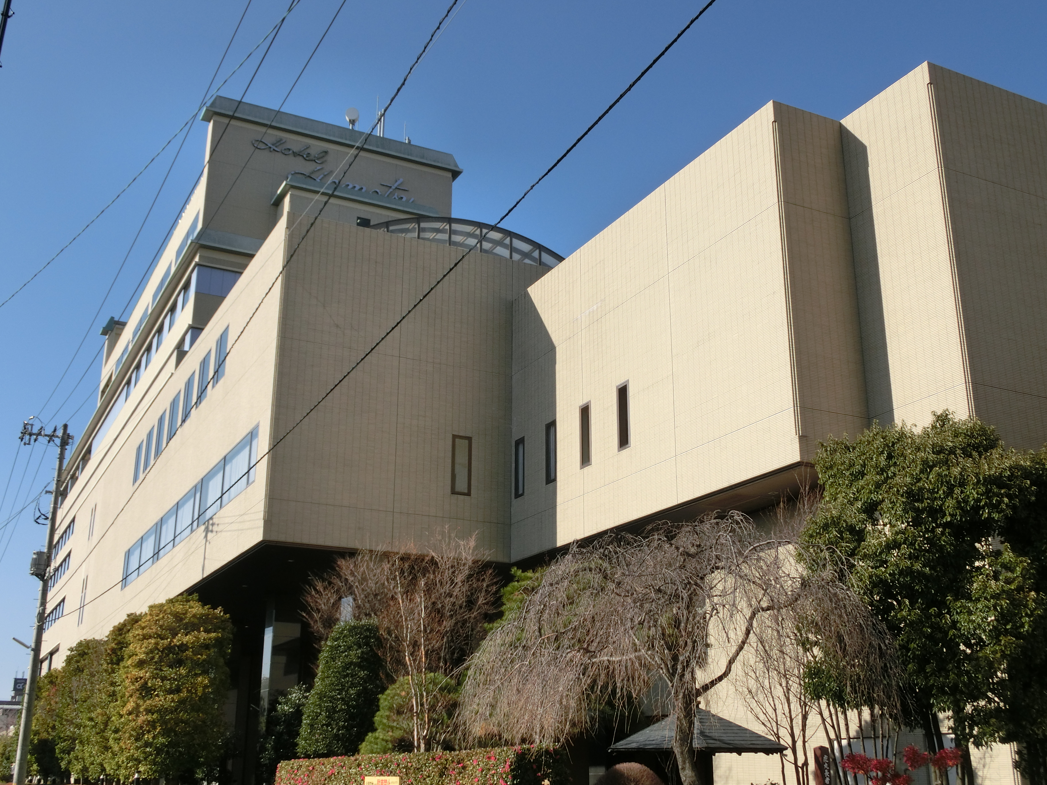 Hotel Hamatsu